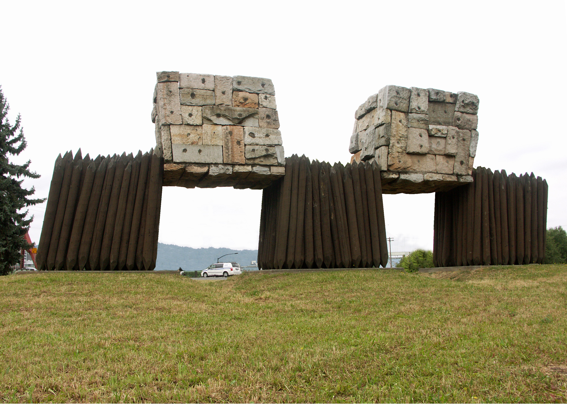 Terra Incognita, 1995 Wood, stone, earth 17 x 40 x 6 feet Portland, OR, Arena Complex; Commissioned by the City of Portland